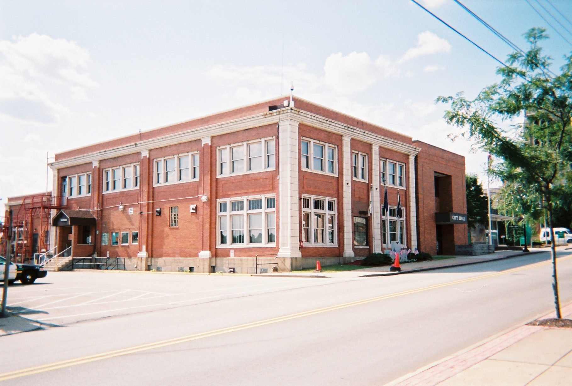 City Hall in Greensburg, Pennsylvania, originally the station and headquarters of West Penn Railways